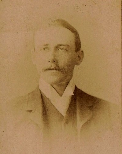 James Tennant Molteno. Last Speaker of the Cape Parliament and First Speaker of the South African Parliament.